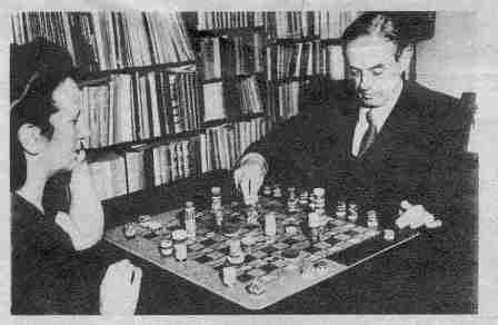 Xul Solar and his wife Lita playing panajedrez